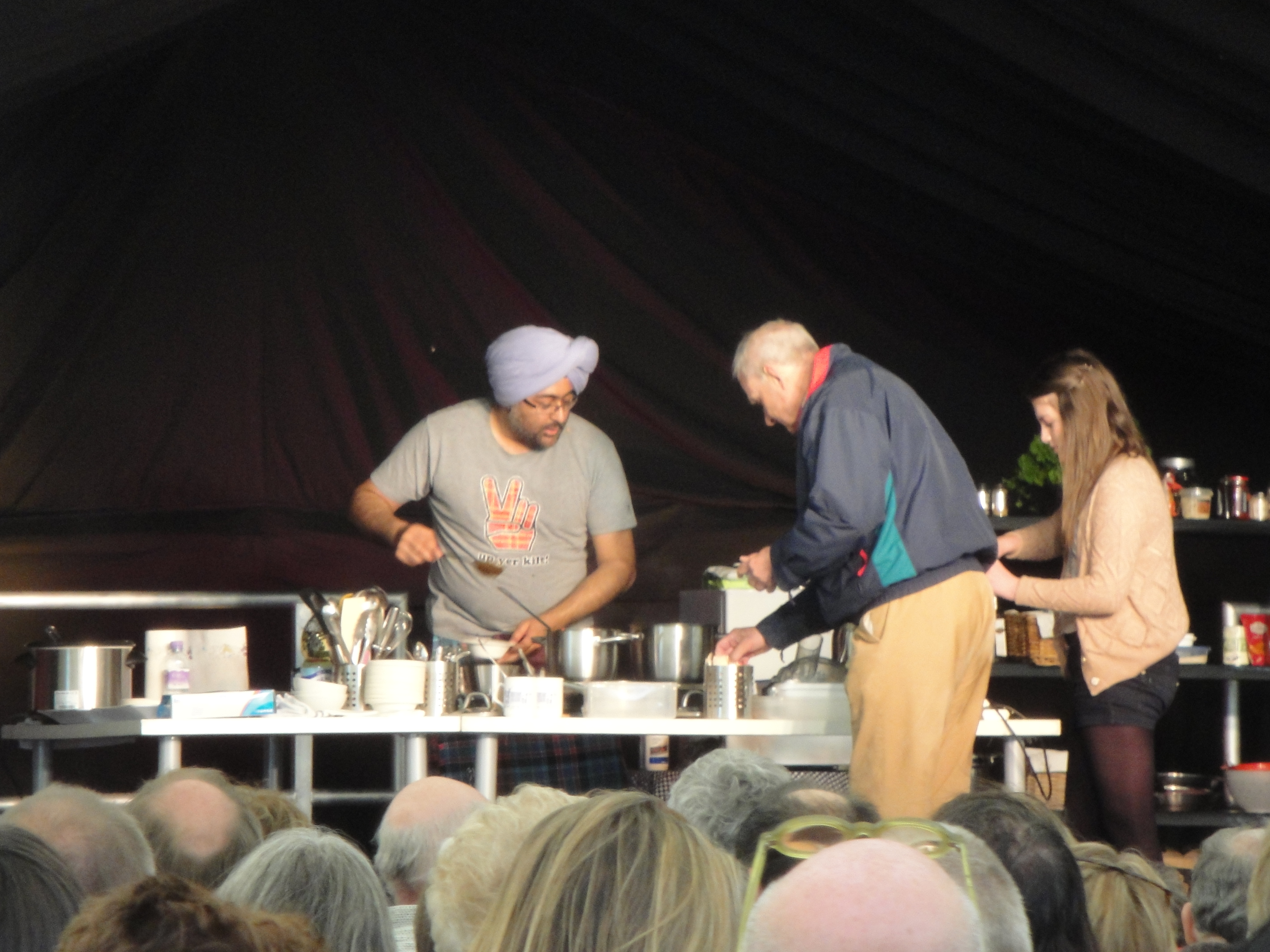 Hardeep Singh Kohli, seen performing at the Isle of Arts Festival 2012, held in Ventnor, Isle of Wight.